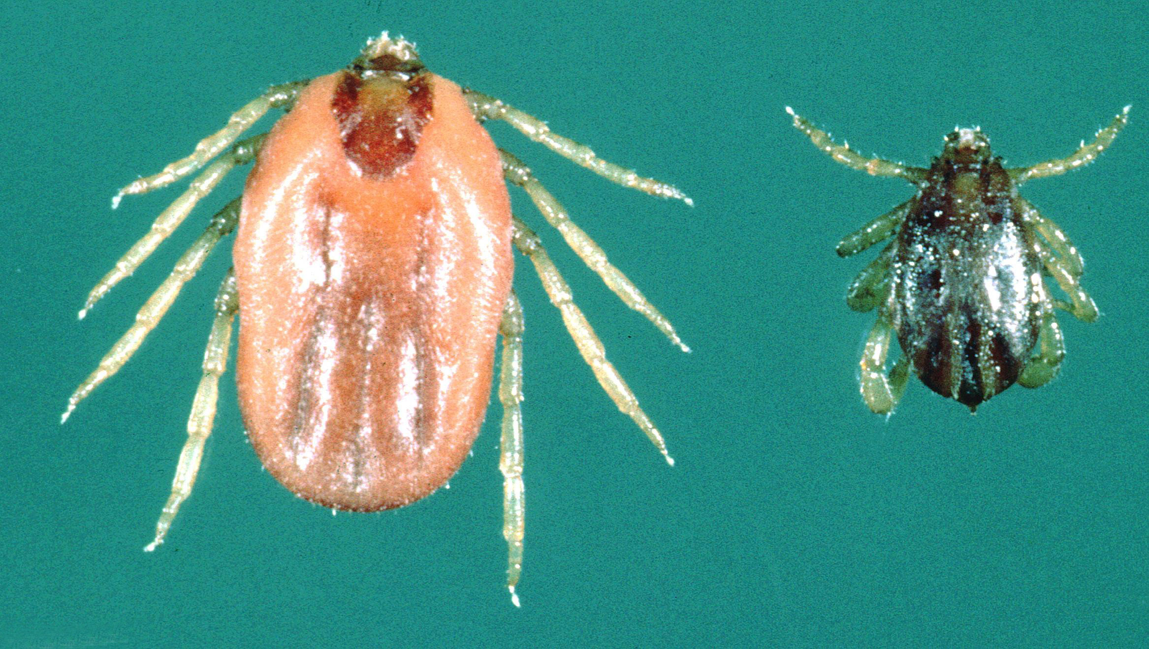 Rhipicephalus microplus, tropical cattle ticks. Female left, male right. Formely known as Boophilus microplus.